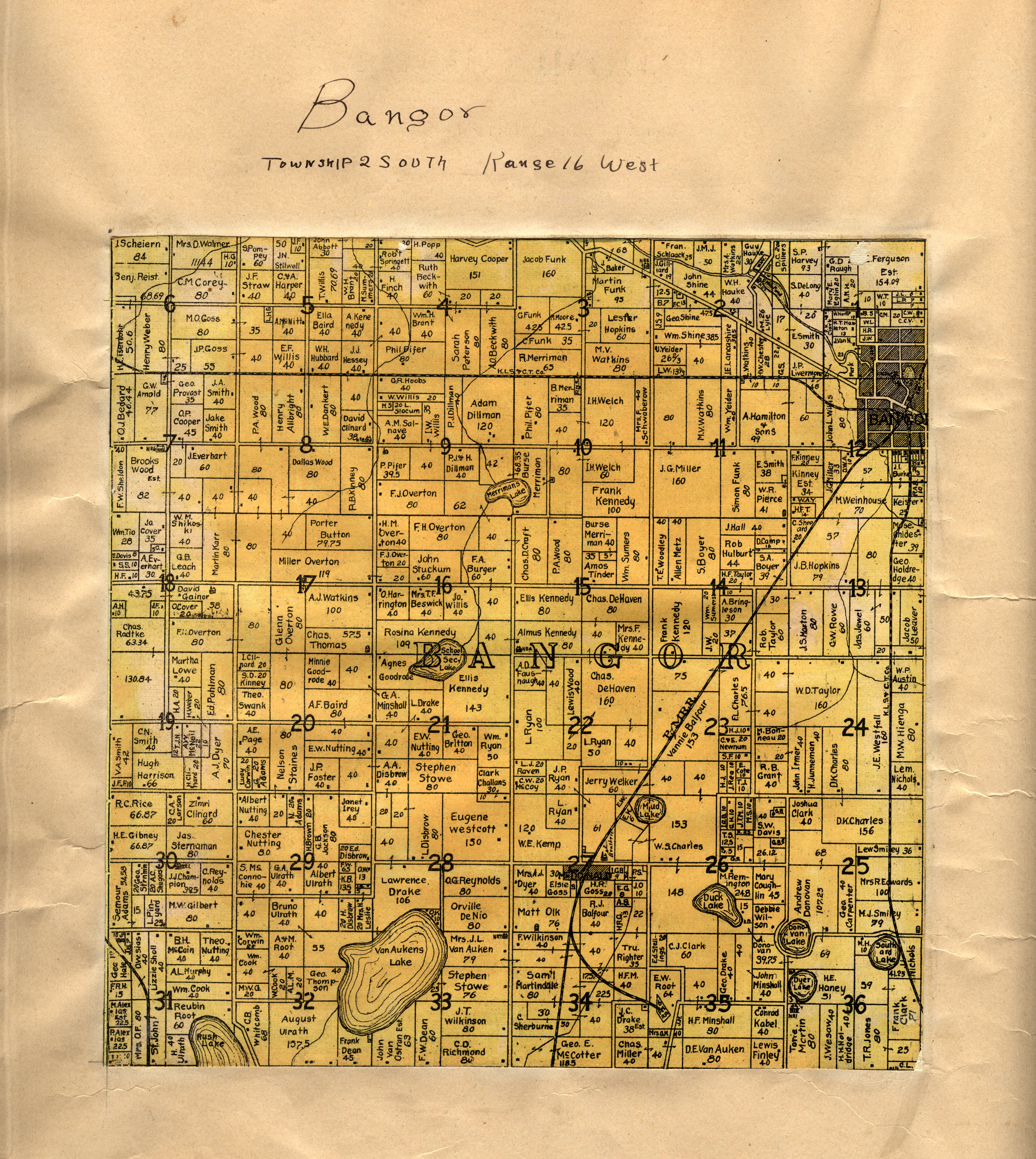 Digital scan of the Bangor Township portion of a larger 1906 map of Van Buren County, Michigan. The county map was cut into township-sized pieces, and the pieces were later found pasted into an 1895 atlas of Van Buren County, now in the collection of the Michigan State University Map Library. Each township map cut from the 1906 county map was pasted onto a blank page opposite the map of the corresponding township in the 1895 county atlas. Shows parcel boundaries and names of property owners, Public Land Survey System township and section numbering, roads, railroads, residences, schools, churches, municipalities, and water features. Print version was cut from map: Orton, M. K. A farm map of Vanburen County, Michigan / compiled from official records and local inspection by W.H. Goss, County Surveyor ; drawn by M.K. Orton. Rockford, Ill. : W.W. Hixson, [1906]. MSU Libraries catalog record